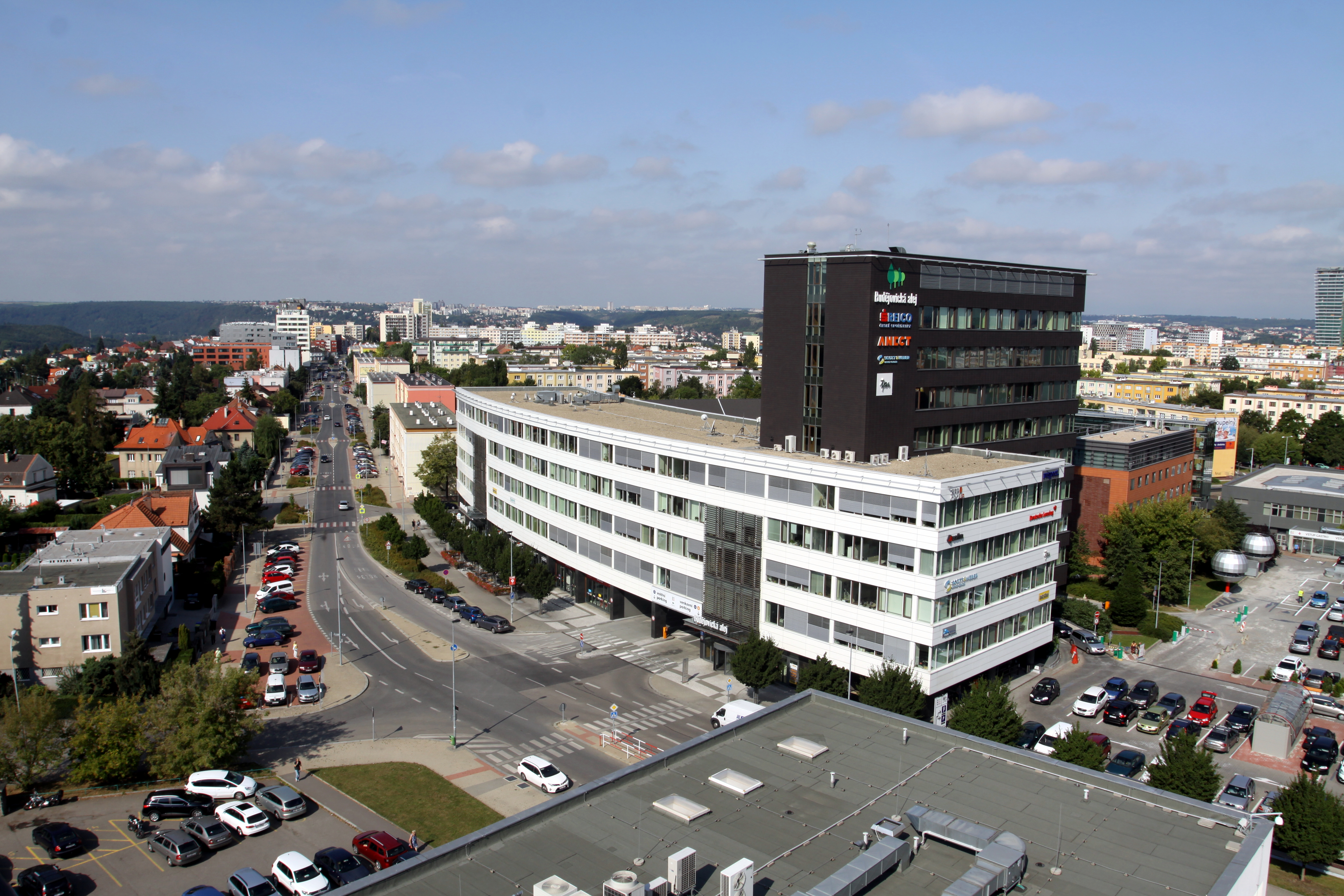 Antala Staška road photographed from the top of the town hall of the Prague 4, Czechia